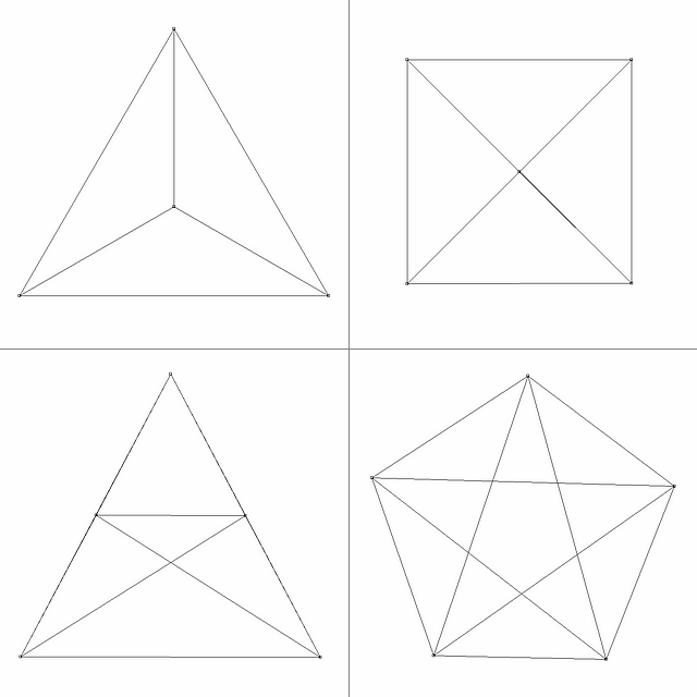 Four symmetry views of the 5-cell polytope, edges drawn with an orthographic projection (z-w axes ignored). Tiny squares are draw marking vertex positions. Some views have overlapping edges.